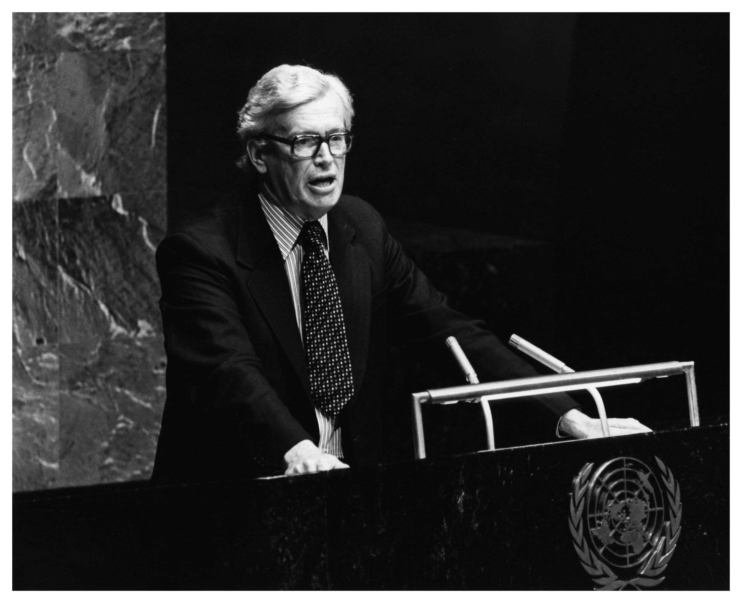 New Zealand Deputy Prime Minister Brian Talboys addressing the UN General Assembly in New York, August 1980.